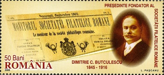 A replica of the magazine The Official Gazette of the Romanian Philatelic Society and the portrait of Dimitrie C. Butculescu (1845-1916), the first President of the Romanian Philatelic Society